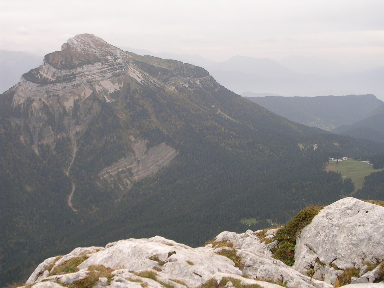 my own photograph